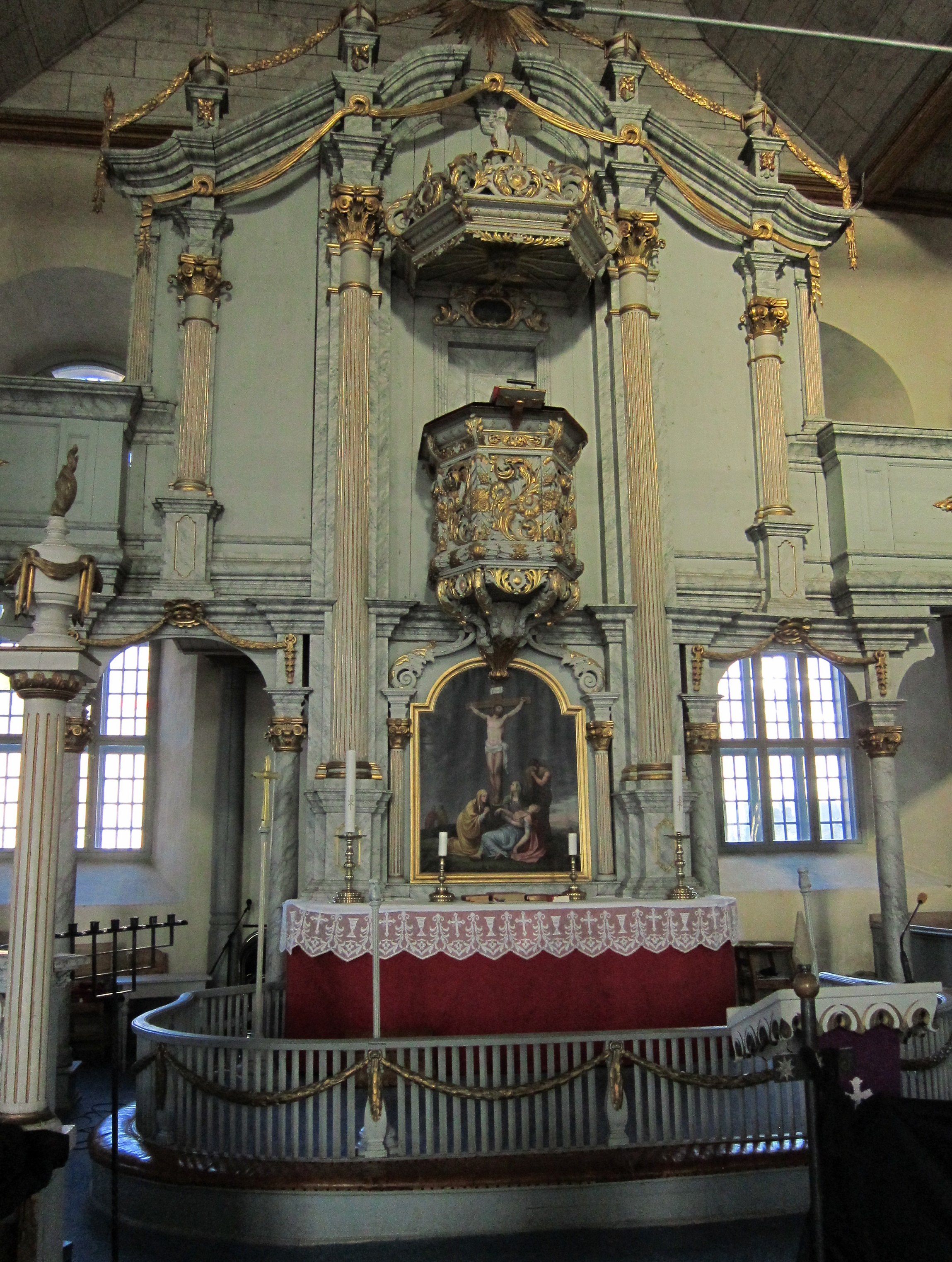 Interior of Sør-Fron church, pulpit-altar